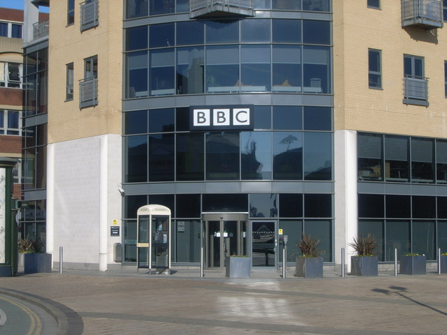 BBC North & BBC Radio Humberside offices